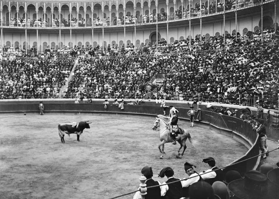 Bullfighting in Portugal